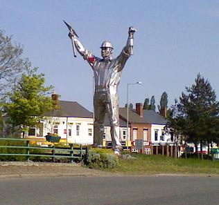 Photo of the "Bronwhills Miner" statue in Brownhills, West Mids created by John McKenna (sculptor)